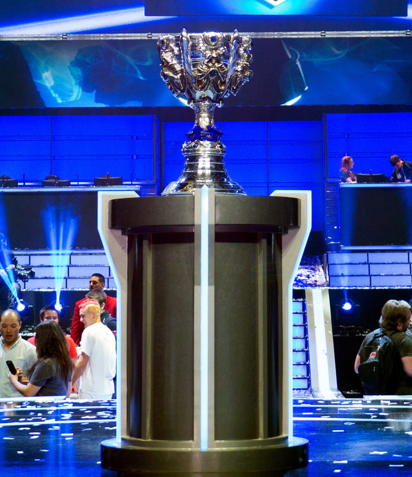 Stage and trophy at the League of Legends World Championship 2013